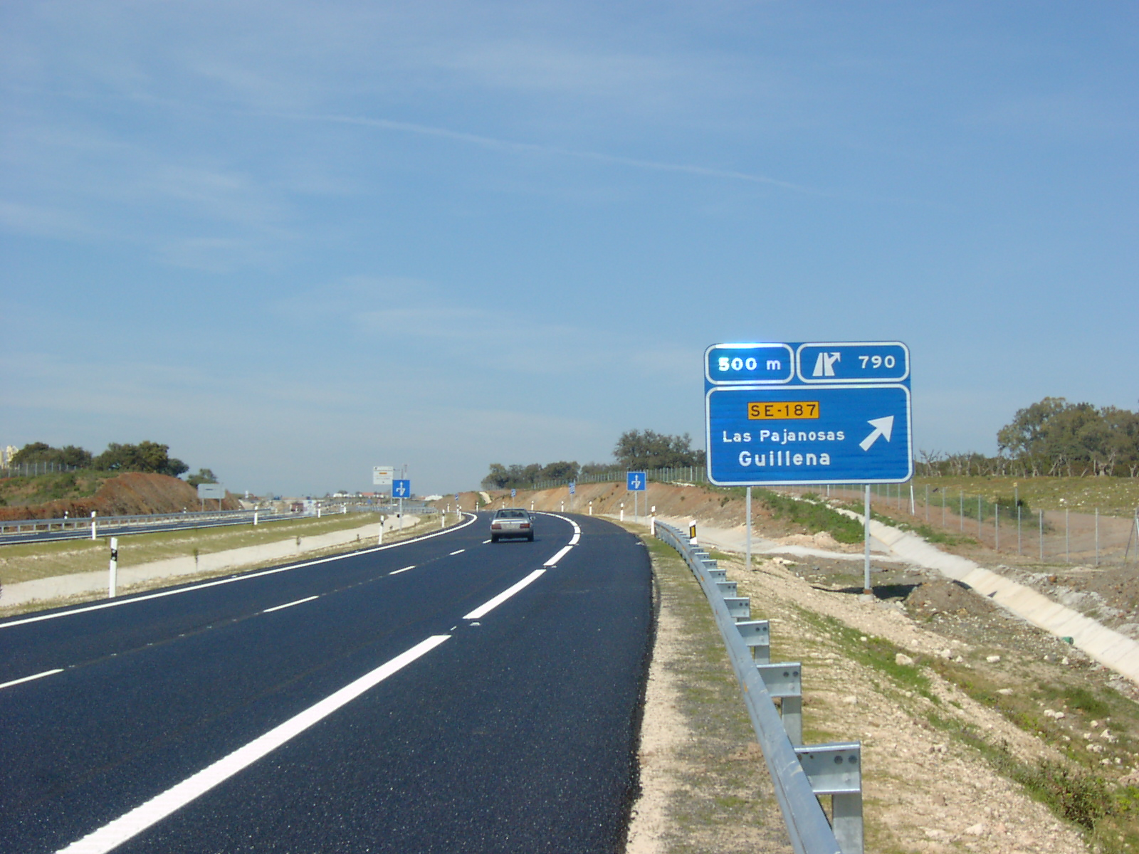 my own work